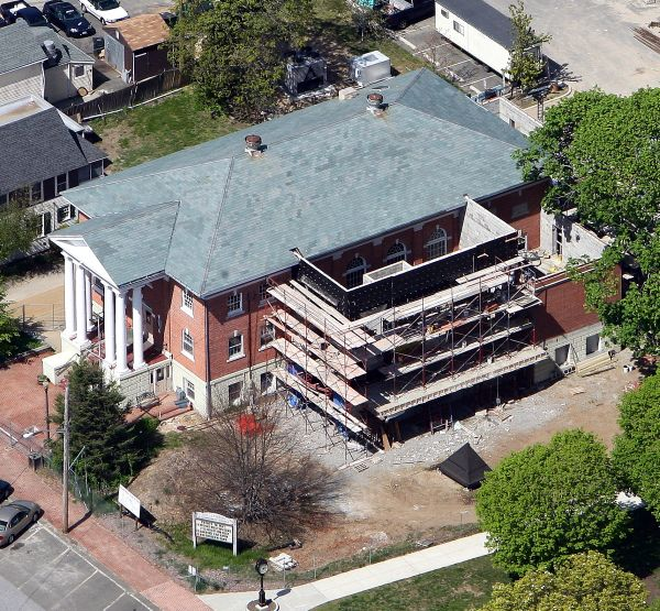 This is the historic circa 1910 building in which The Katharine Hepburn Cultural Arts Center will be housed. It is under renovation and is being added on to.